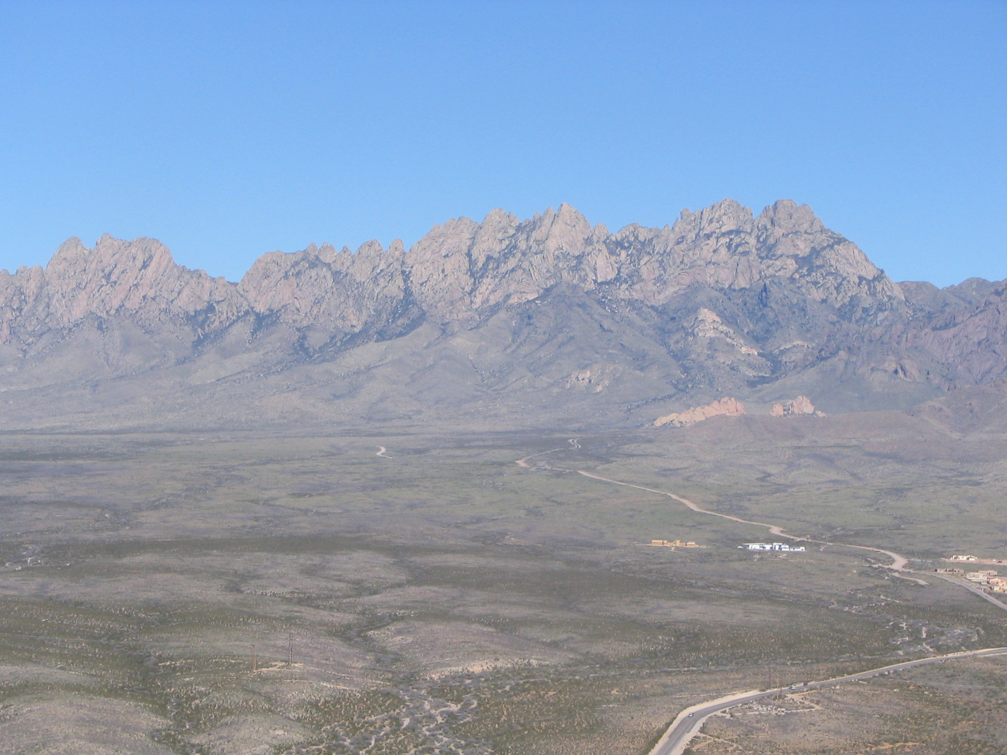 Organ Mountains, looking from Tortugas ("A") Mountain, (east border of Mesilla Park, New Mexico). View looking ENE, 8 mi to mountain range.